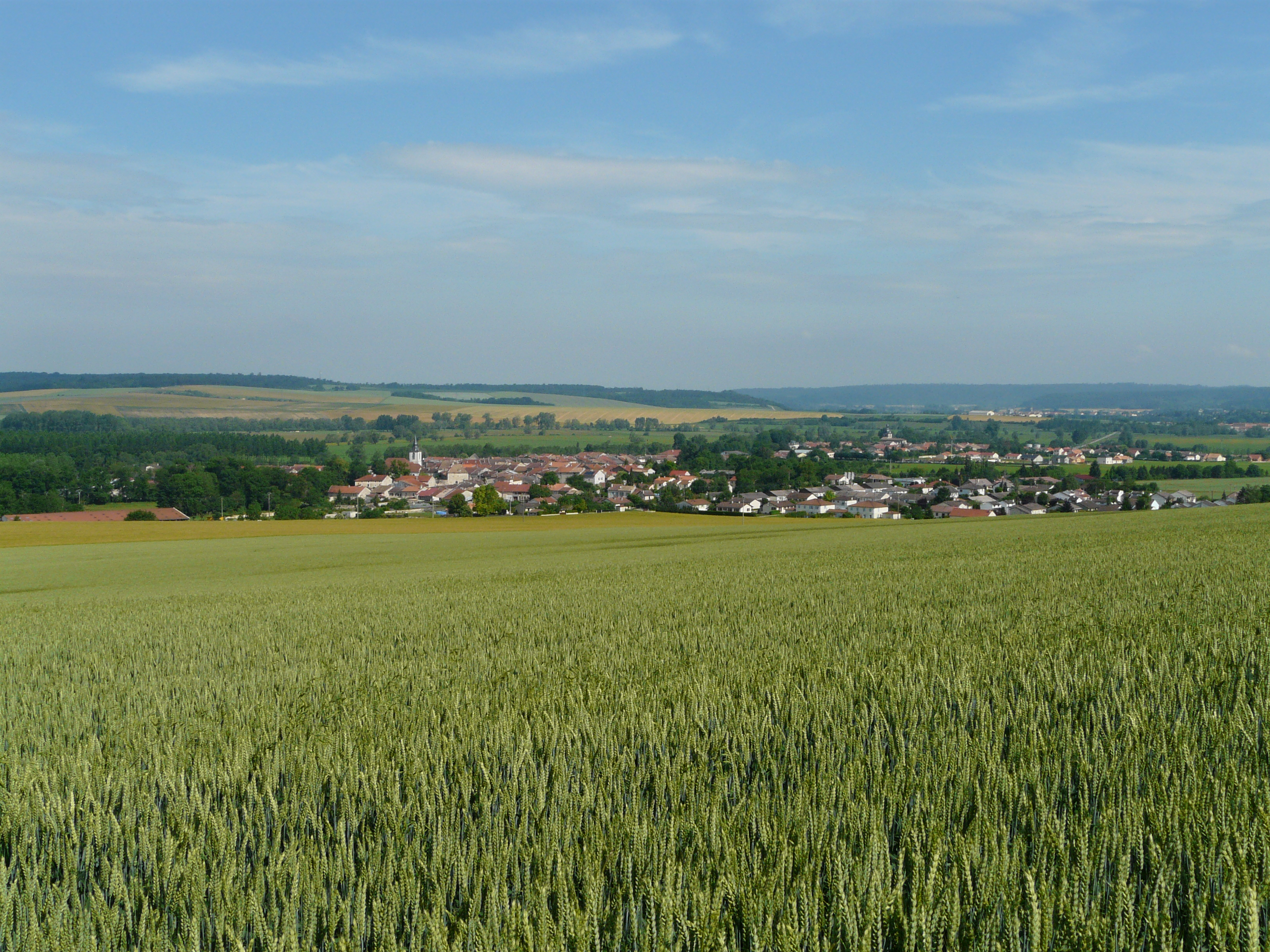 View of the village of Sorcy-Saint-Martin (Meuse) from the hill of Châtel-Saint-Jean